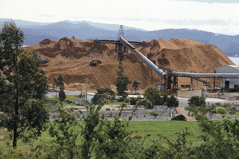 A mountain of woodchips awaits export to Japan from the Harris-Daishowa mill at Eden, on the New South Wales far south coast.